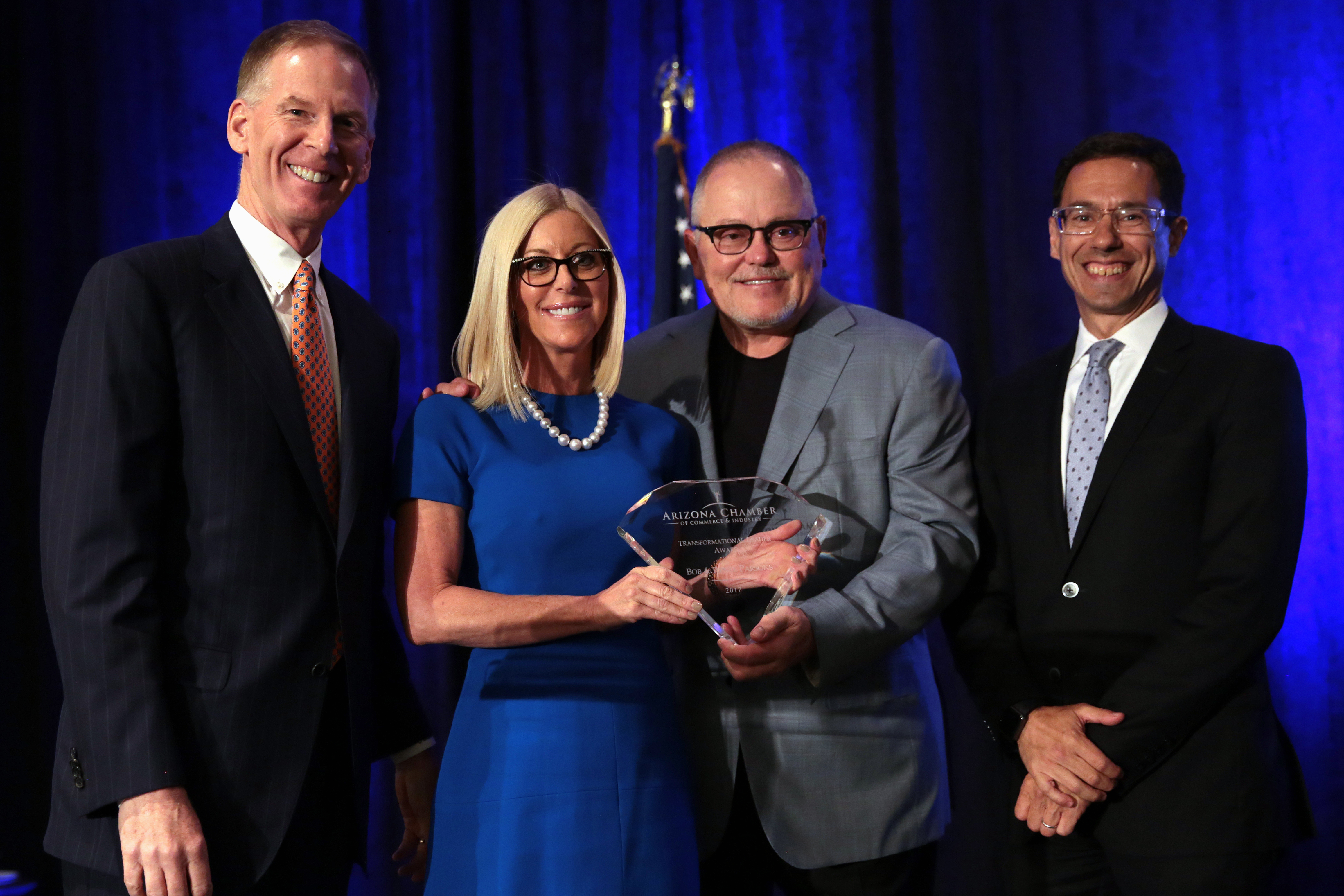 Bob Parsons and Renee Parsons receiving an award at an event in Phoenix, Arizona.